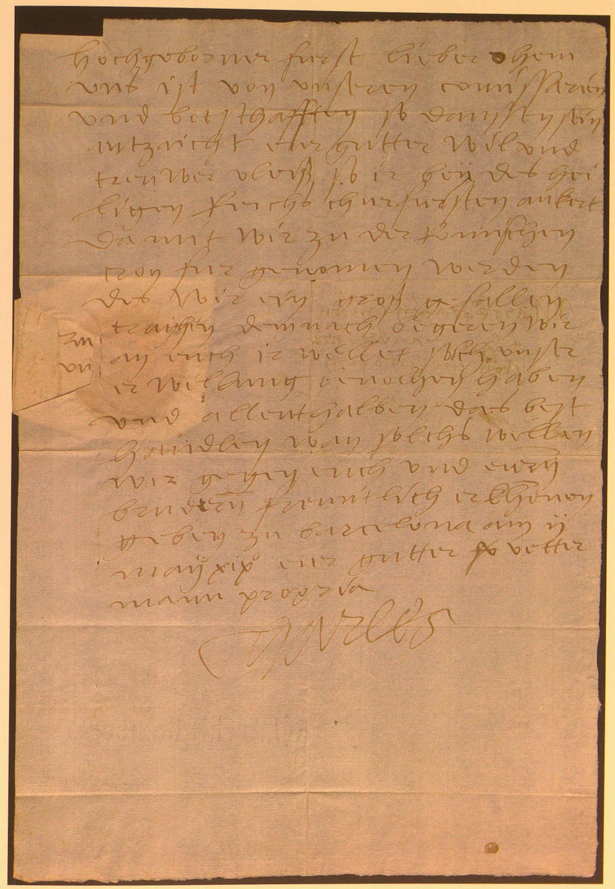 An autograph letter of Charles, the future Emperor Charles V, to Casimir, Margrave of Brandenburg-Bayreuth, concerning the imminent election of a new King of the Romans. Nürnberg, Staatsarchiv, Ansbacher Archivalien 13834.